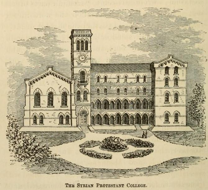 The Syrian Protestant College c1872